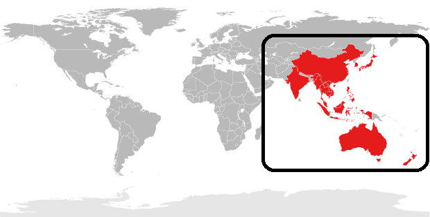 RCEP Region